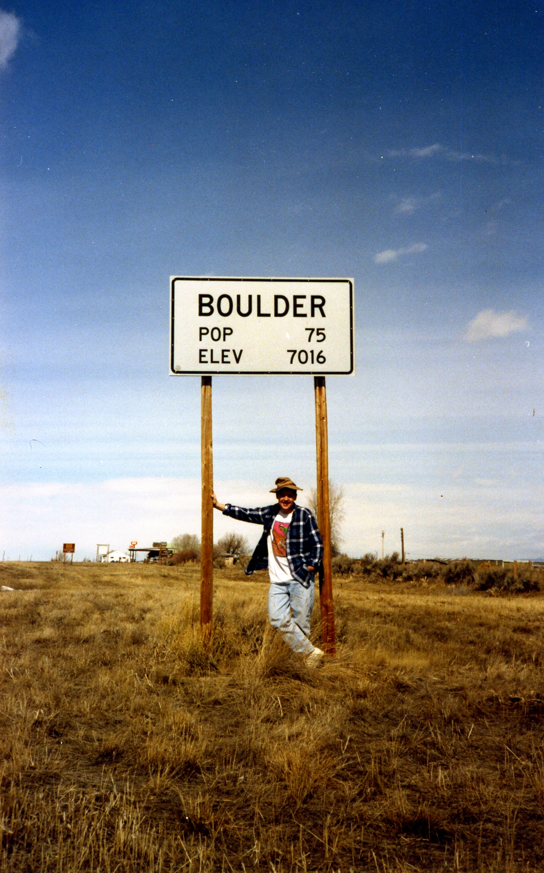 Sign for Boulder, Wyoming; population 75